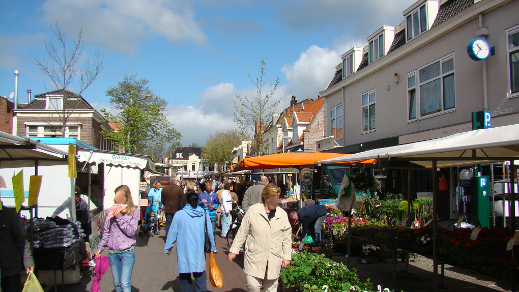 Market at Purmerend, Netherlands